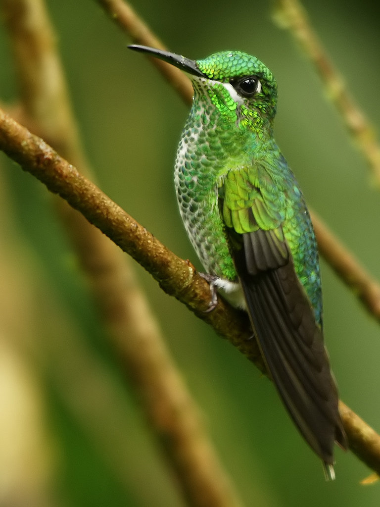 Female Green-crowned Brilliant at Rara Avis near Las Horquetas, Costa Rica.